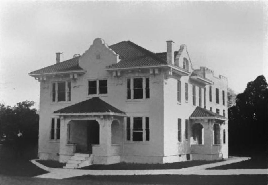 The old Muhlenberg County jail and jailer's residence on Court Row in Greenville, Kentucky. Constructed in 1912, it was added to the National Register of Historic Places in 1985 and demolished circa 2000 to make room for the Muhlenberg County Detention Center.